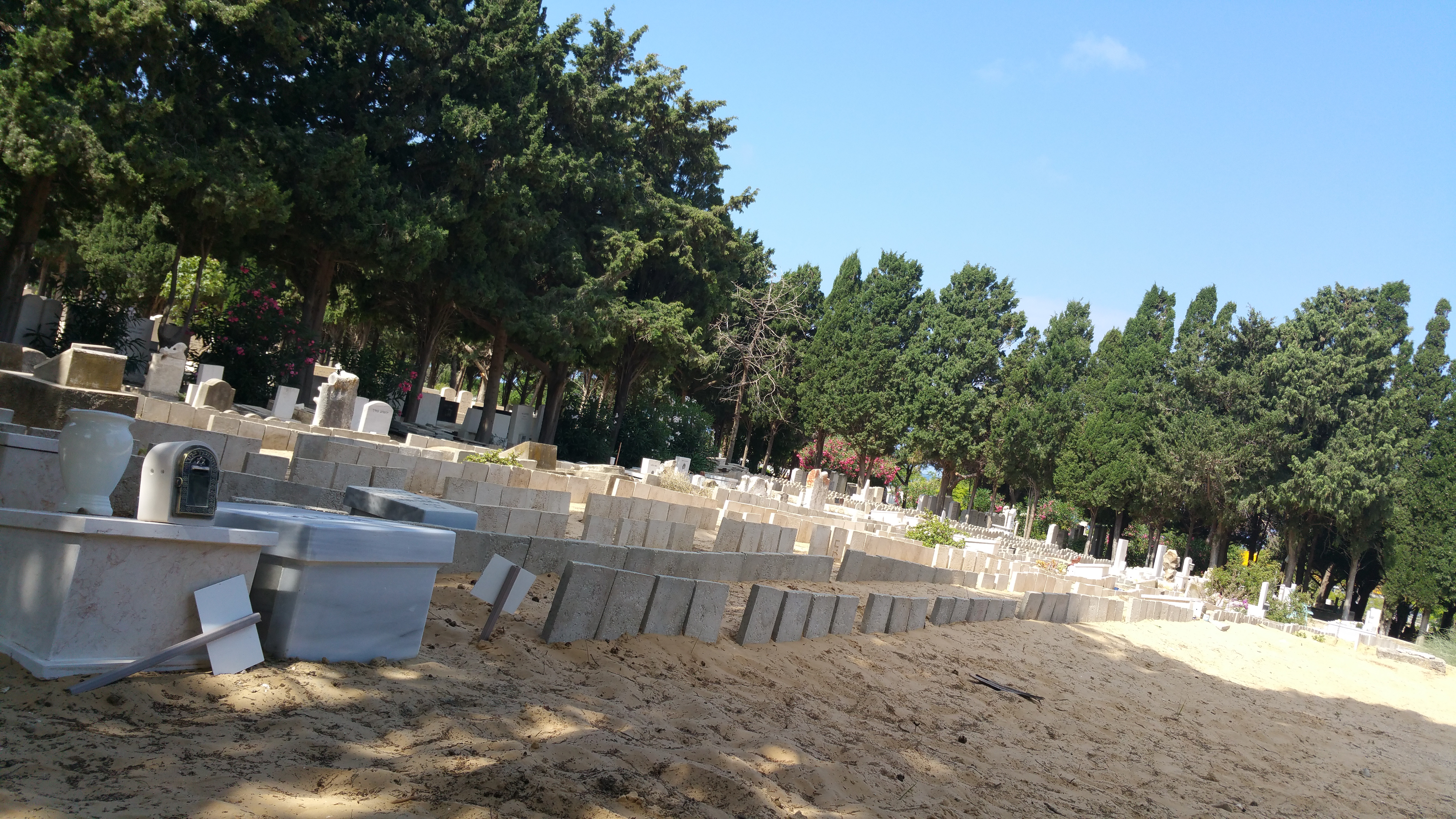 ​A burial plot for embryos, The Old Cemetery, Haifa, Israel​